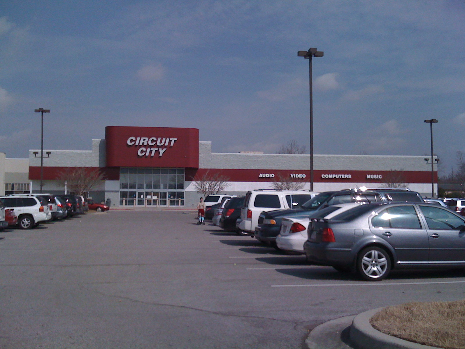 The former Circuit City store location in Huntsville, Alabama, USA the day after the liquidation sale ended. The high amount of cars in the parking lot are due to a large consignment sale in an adjacent parcel.